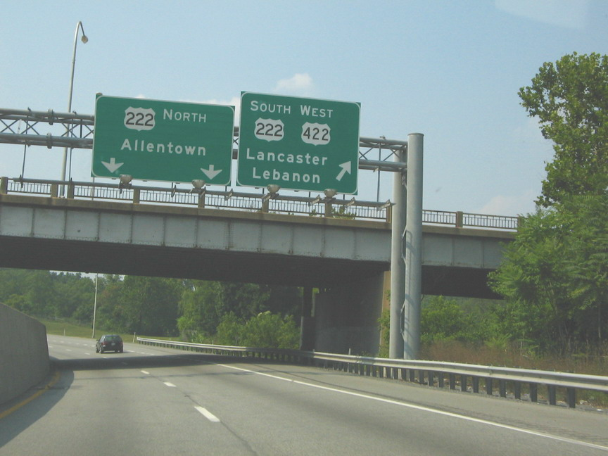 U.S. Route 422 in Reading, PA approaching U.S. Route 222